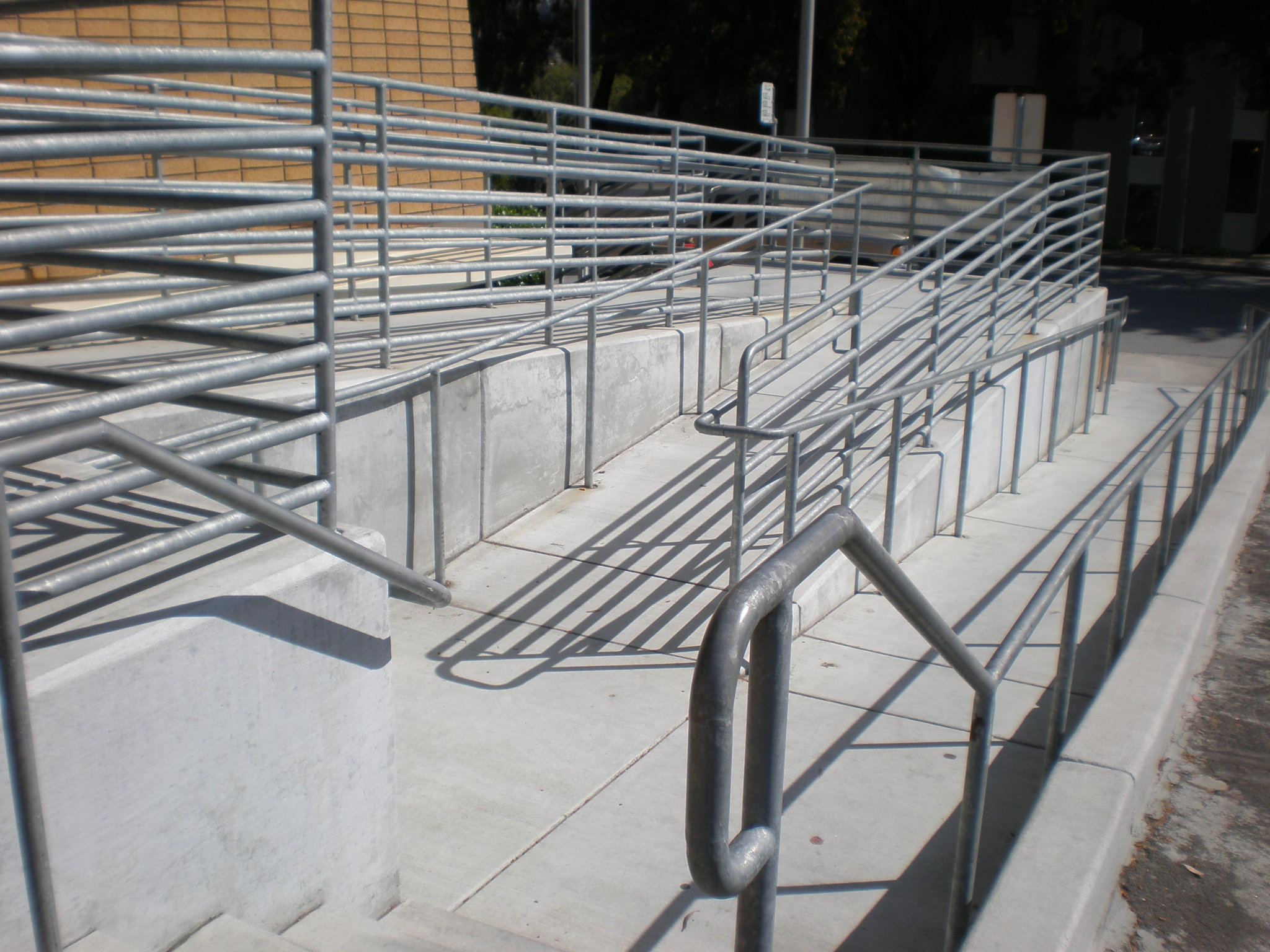 Wheelchair ramp leading to the main entrance of the South San Francisco Main Library, South San Francisco, California.